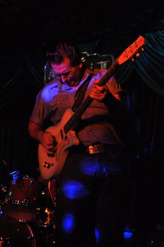 Dave Gonzalez (guitarist) of Hacienda Brothers - Live in Concert (photo by Scott Dudelson)